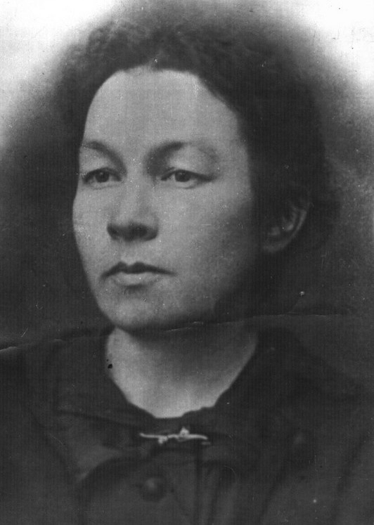 Konkordia Samoilova, Russian and Soviet politician, feminist.